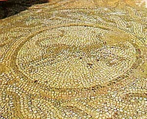 Detail from a mosaic in the Early Christian basilica in Radolishta (5th century).